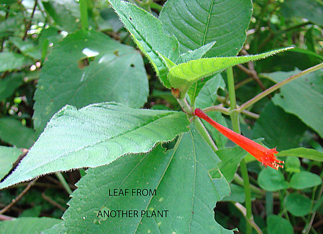 Found in the mountains from southern Mexico to Peru. Photo from Volcan Baru, Panama. In context at